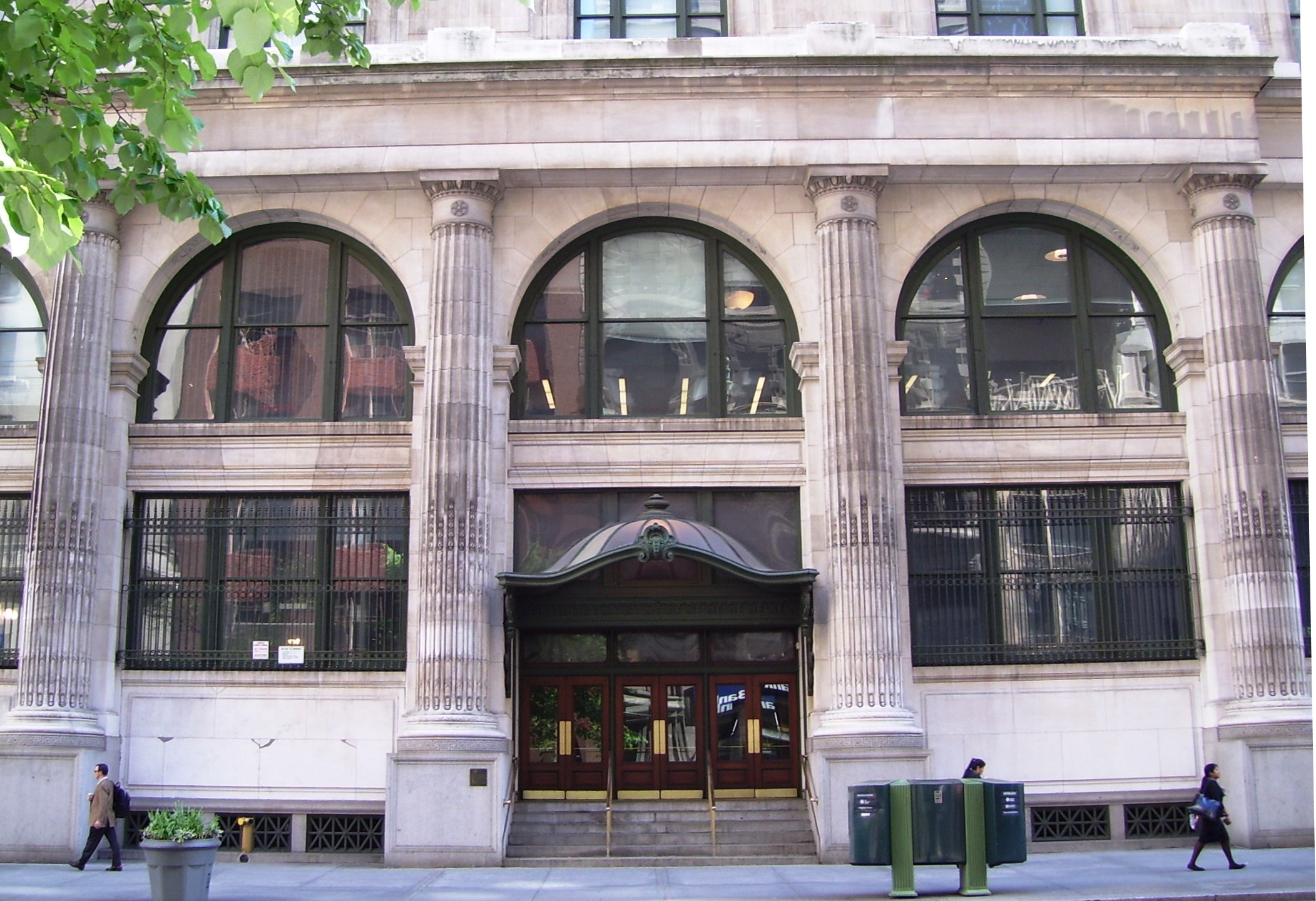 The B. Altman & Company Building at 351-57 Fifth Avenue from East 34th to 35th Streets, through to 188-89 Madison Avenue, was built in stages from 1906-1913, designed by Trowbridge & Livingston in Italian Renaissance style. Altman's was the first big department store to make the move from the "Ladies' Mile" shopping district, where the dry goods emporia had been located, to Fifth Avenue. The neighborhood was still primarily residential at the time, and the design of the new building was planned to fit in with the palatial mansions around it. Following Altman's example, the other big stores followed and made the move uptown as well. The store close in 1989, and was vacant until 1996, when the exterior was restored by Hardy Holzman Pfeiffer and the interior reconfigured by Gwathmey Siegel & Associates for the City University of New York Graduate Center on the Fifth Avenue side, the New York Public Library's the Science, Industry and Business Library on the Madison Avenue sie, and the Oxford University Press. (Source: AIA Guide to NYC (4th ed.) and Guide to NYC Landmarks (4th ed.))